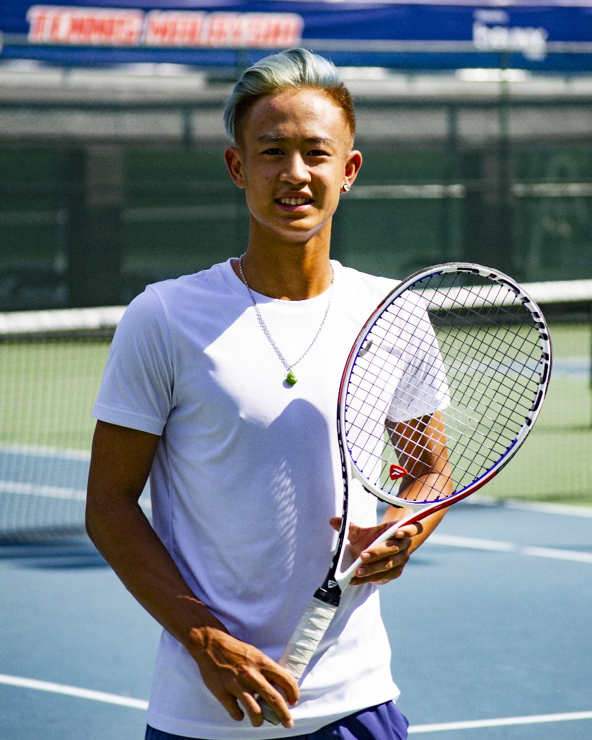 Christian just before his daily afternoon training session.